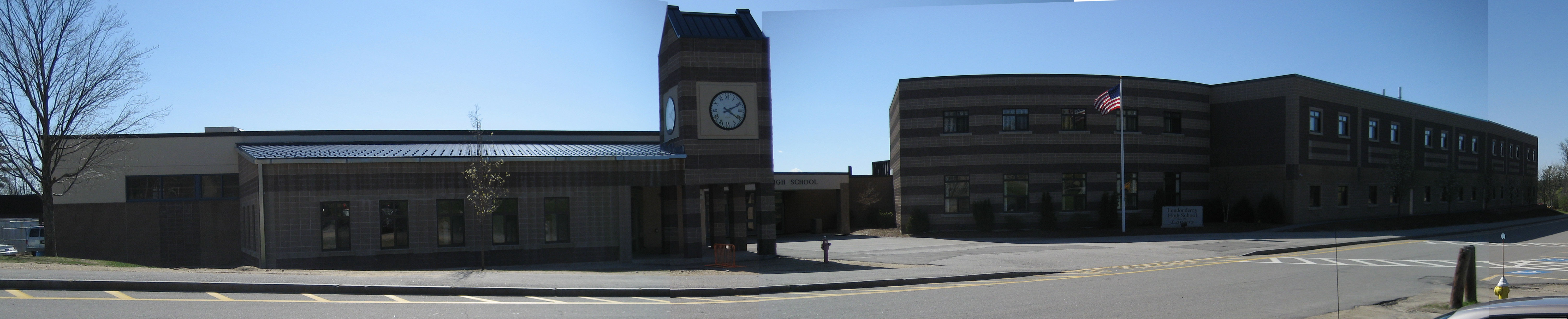 Londonderry High School, NH,- panoramic